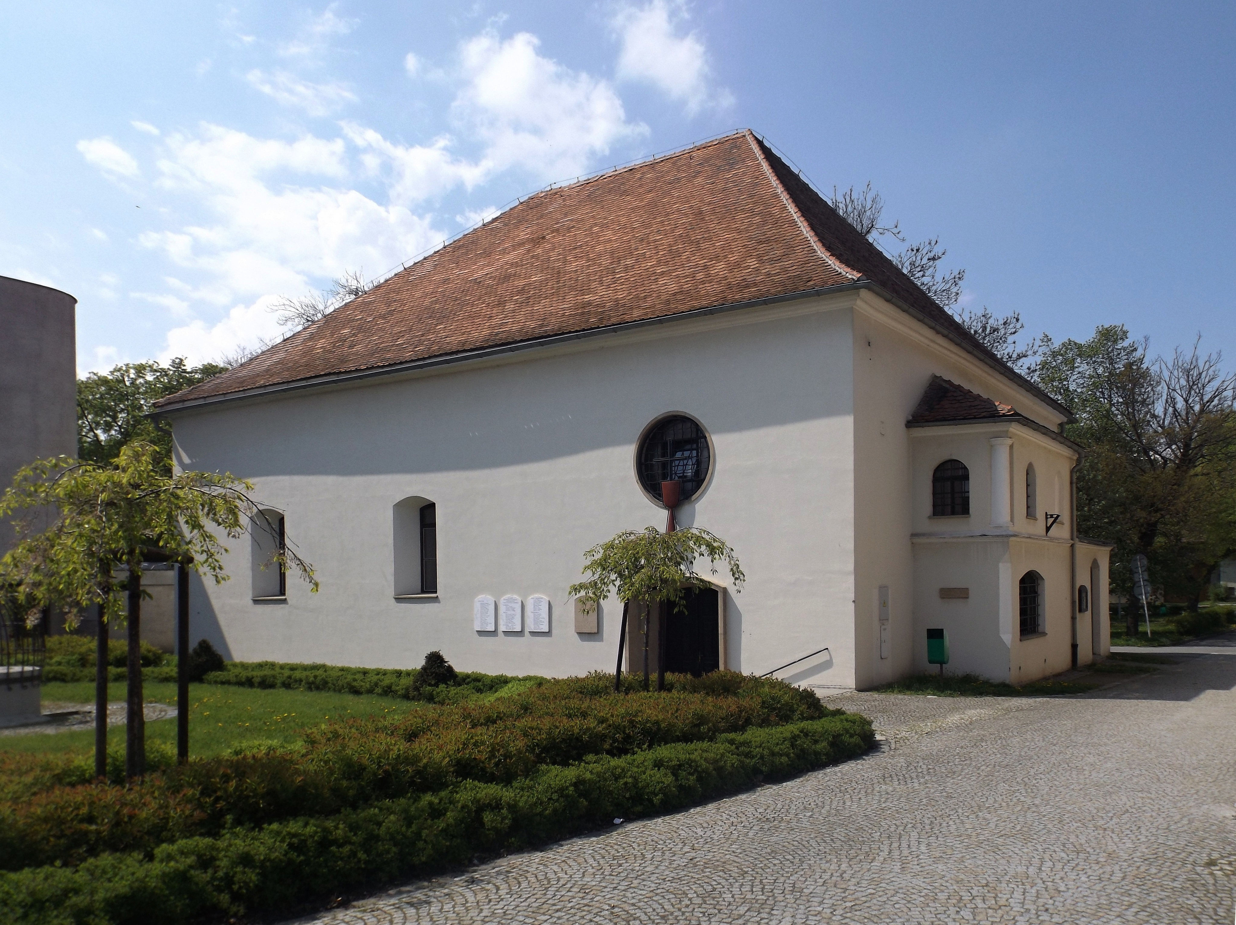 Former synagogue from the "Husova" street